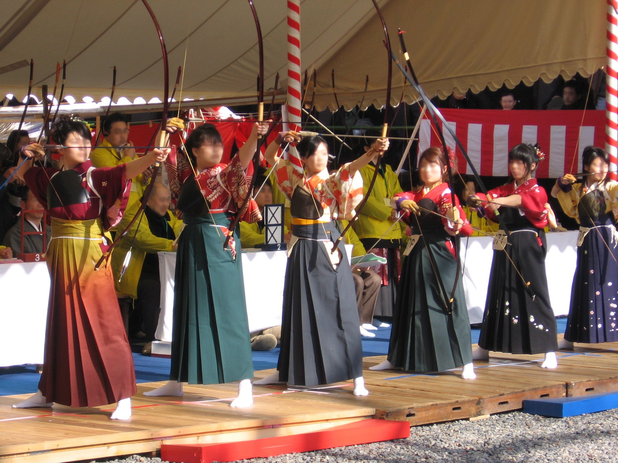 Made by Peter 111 at Sanjusangendô temple, Kyoto in January 2005, during Toshiya festival retouch by Fukutaro.